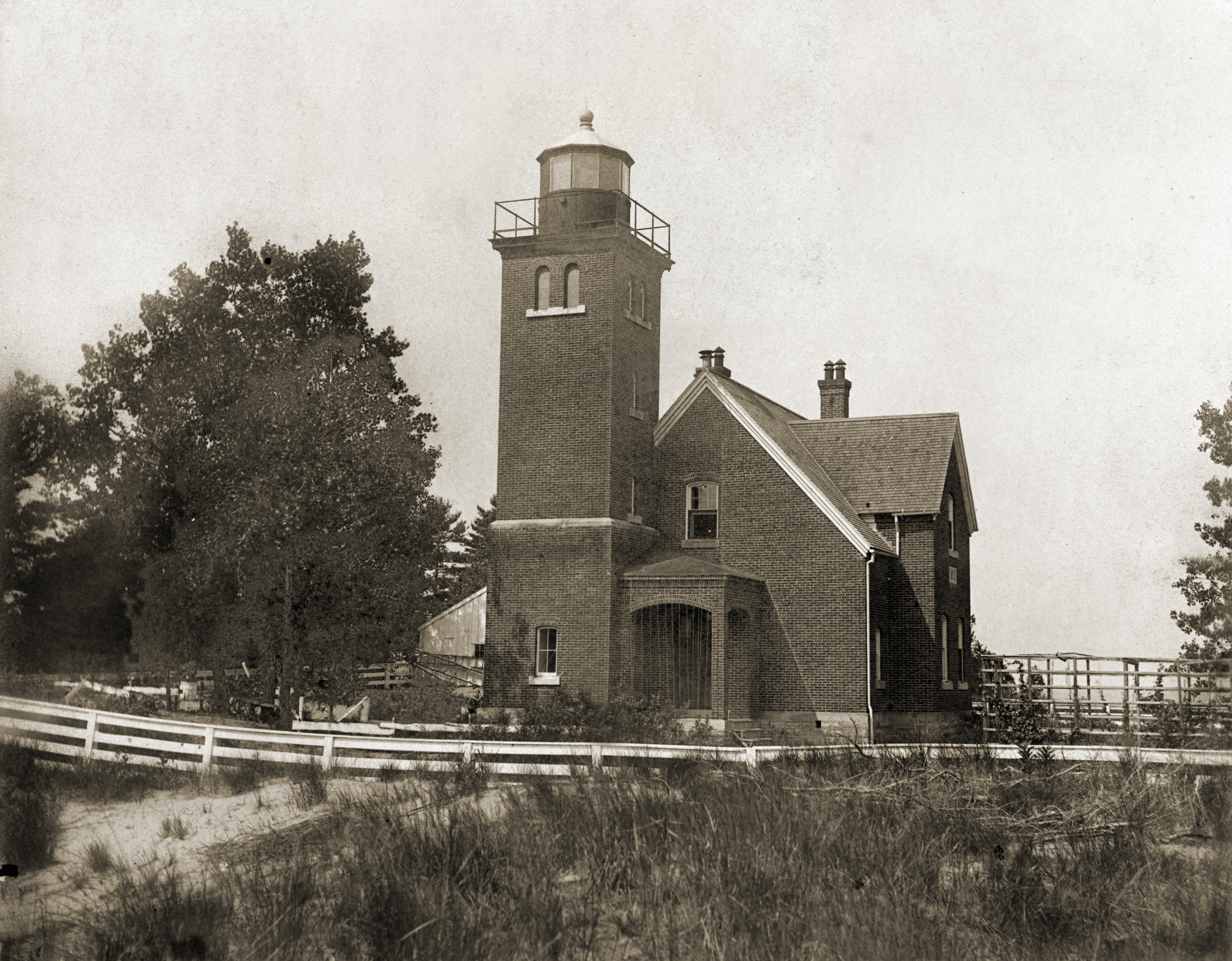 The Presque Isle Light, before being raised to its current height.